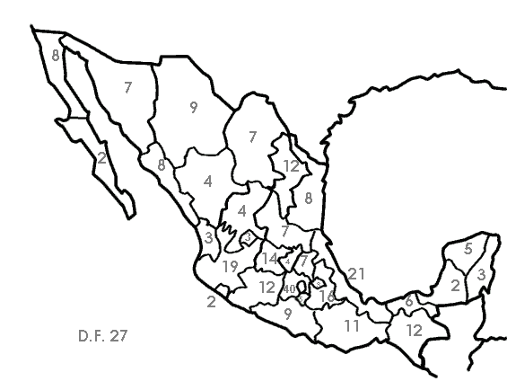 Federal electoral districts Mexico, 2006-2009